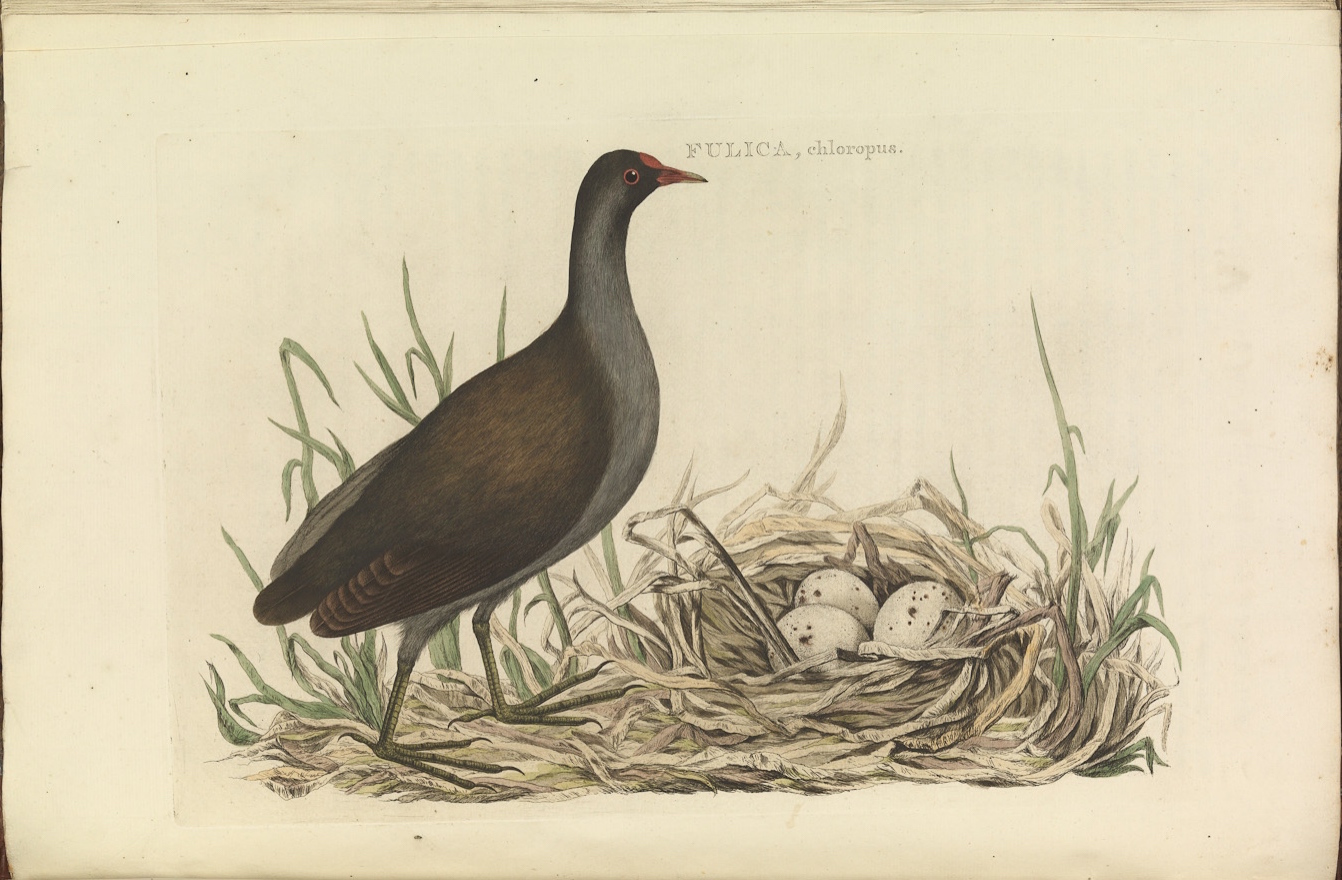 Plate 39 from the Nederlandsche vogelen by Nozeman and Sepp.